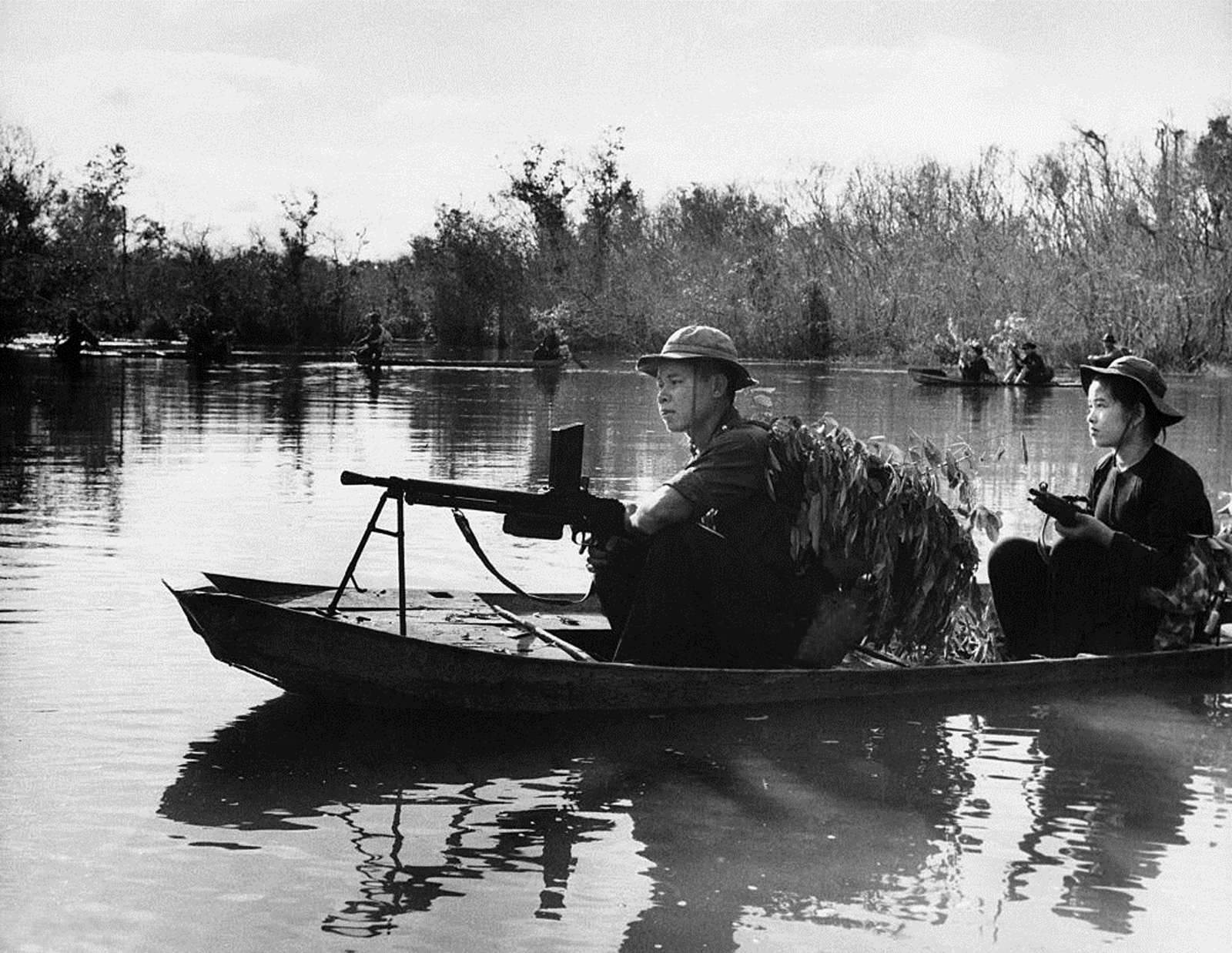 October 27, 1966 License Viet Cong Guerrillas, led by North Vietnamese Regulars, bear automatic weapons and use leafy camouflage as they patrol a portion of the Saigon River in small boats somewhere in South Vietnam, according to an official Communist source. Viet Cong guerrillas in small boats patrol the Saigon River in South Vietnam in photo taken by communist forces